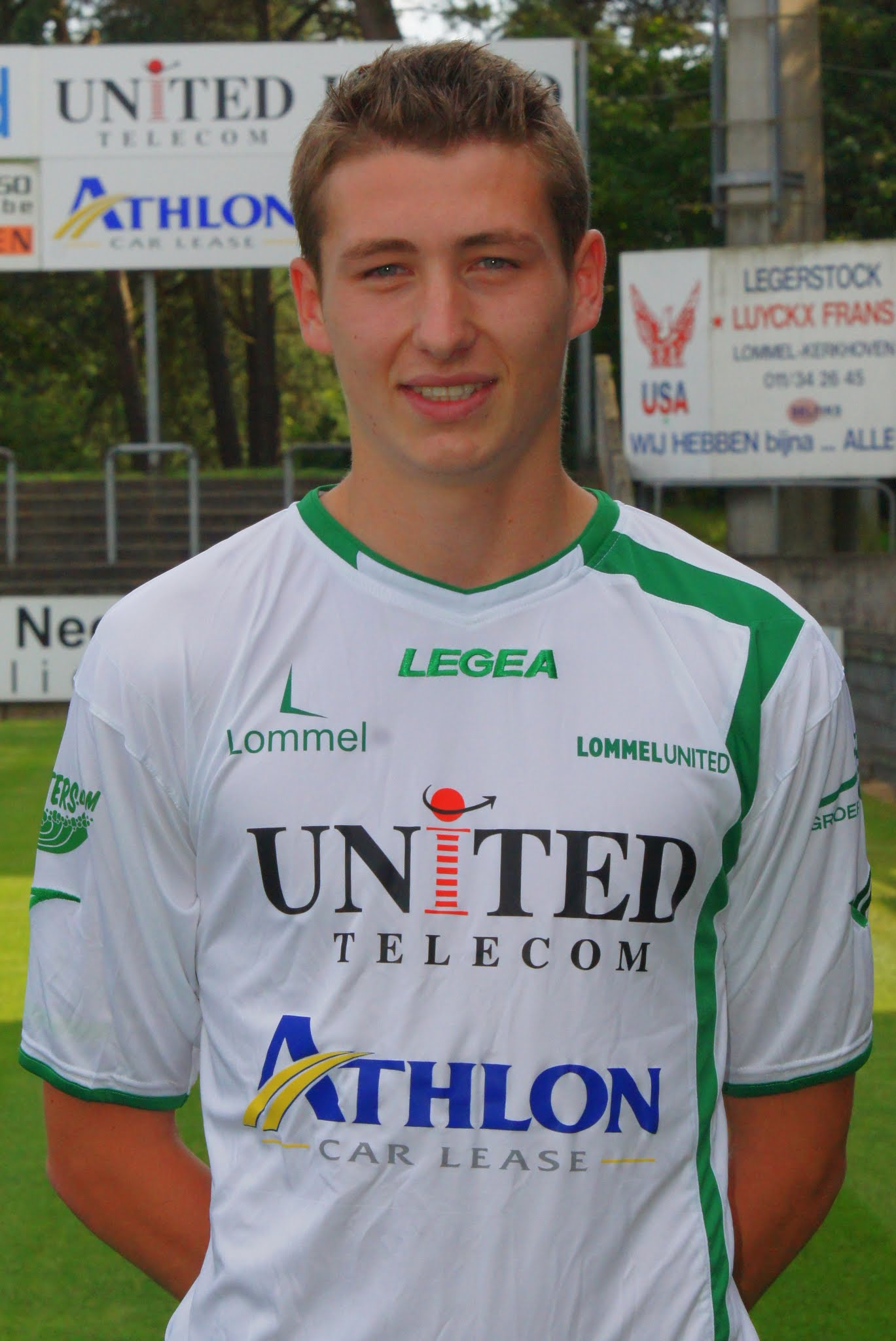 Midfielder